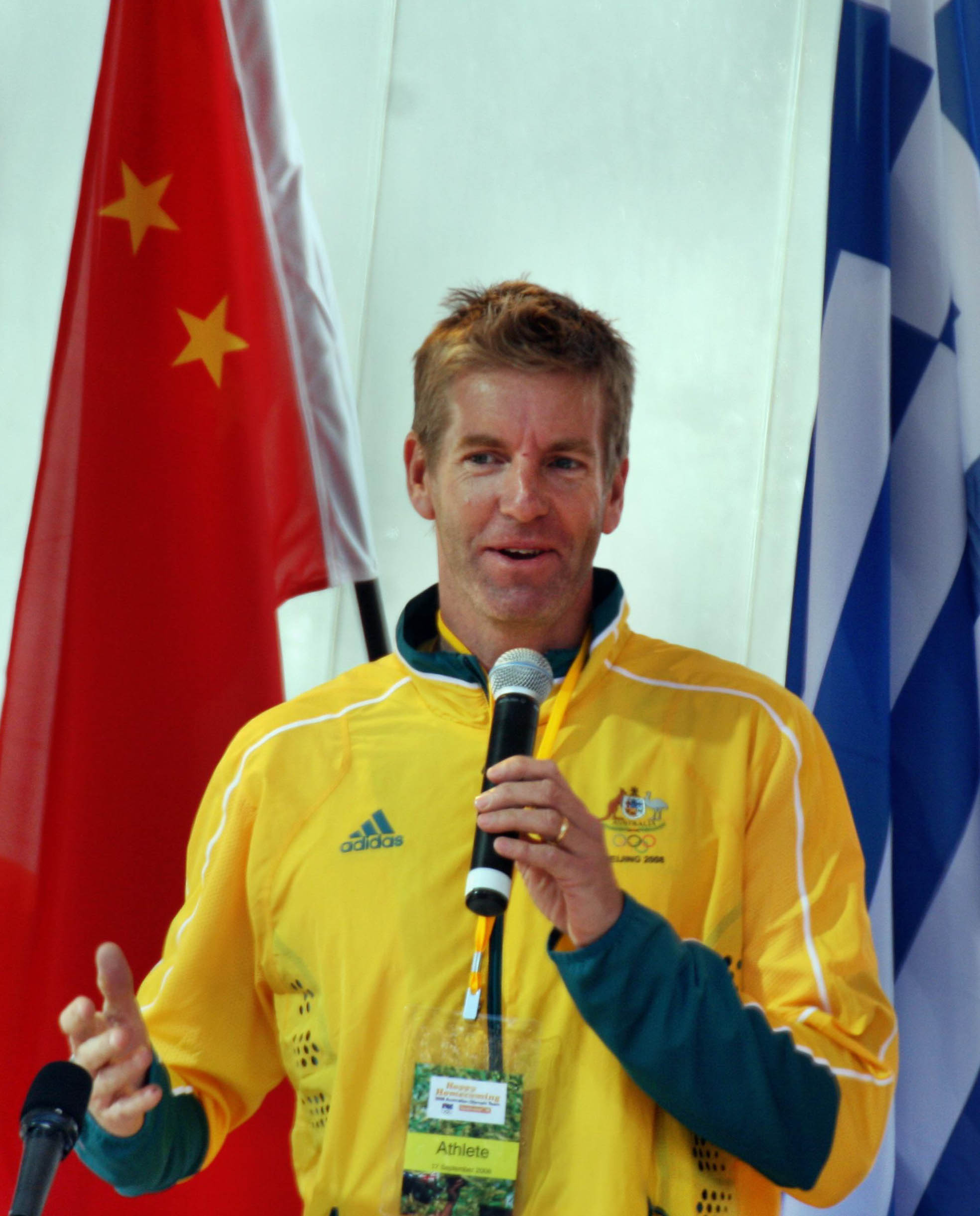 James Tomkins at the Melbourne homecoming parade for 2008 Olympic Team.